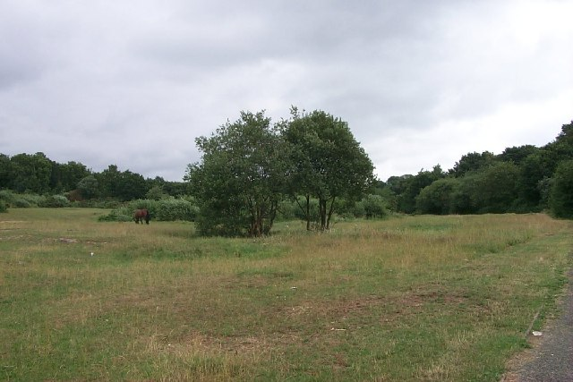 Spike Island - Botany Bay, Sholing Common, Southampton. Apparently the name comes from the early 19th century when convicts were kept here before being transported to Australia. According to legend they were chained to spikes to prevent their escaping thus "Spike Island". The road which runs next to the common is called Botany Bay Road